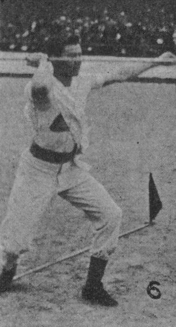 Finnish javelin thrower Evert Jakobsson in an international athletics competition in Stockhalm in 15–17 September 1906